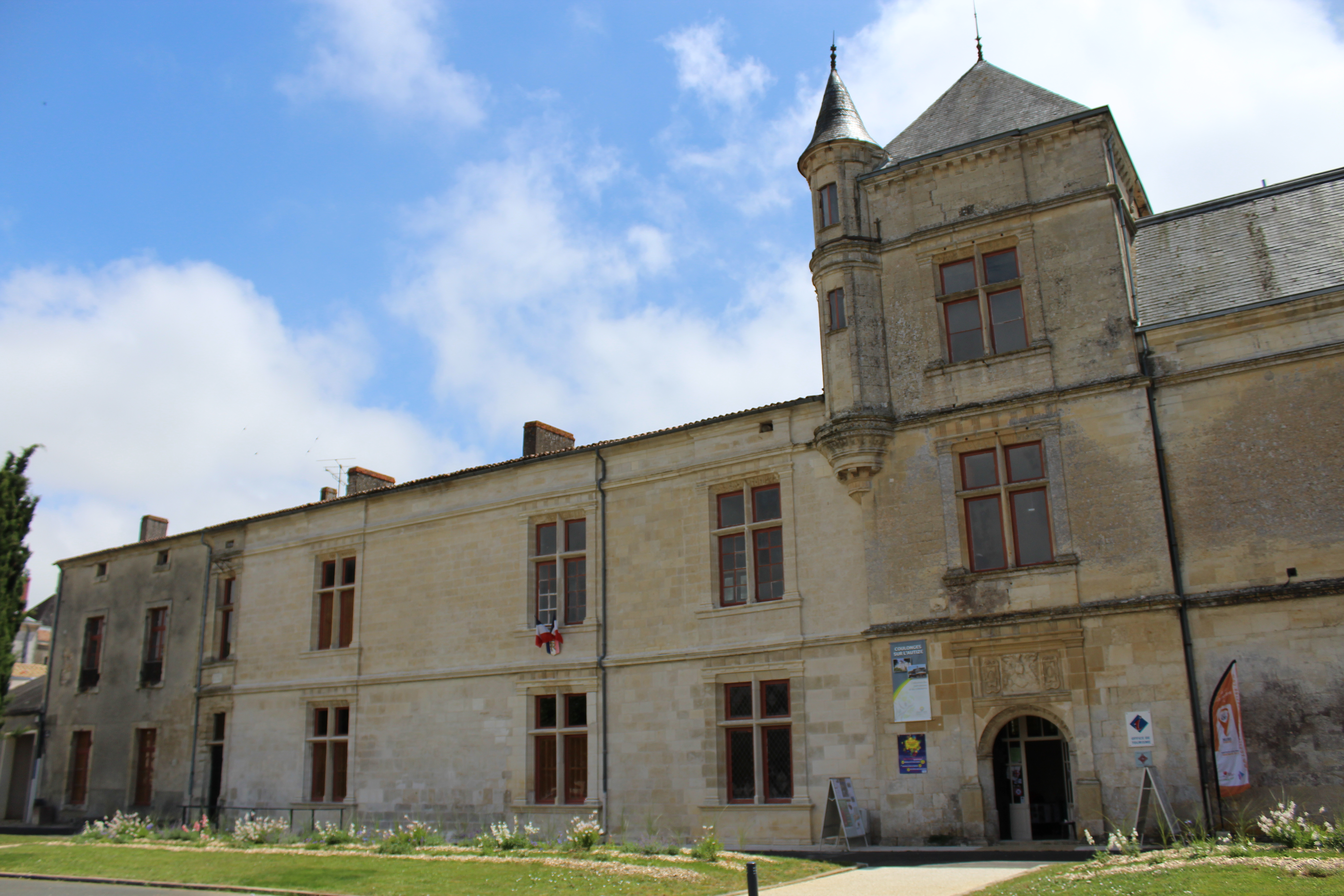 Renaissance Castle of Coulonges-sur-l'Autize